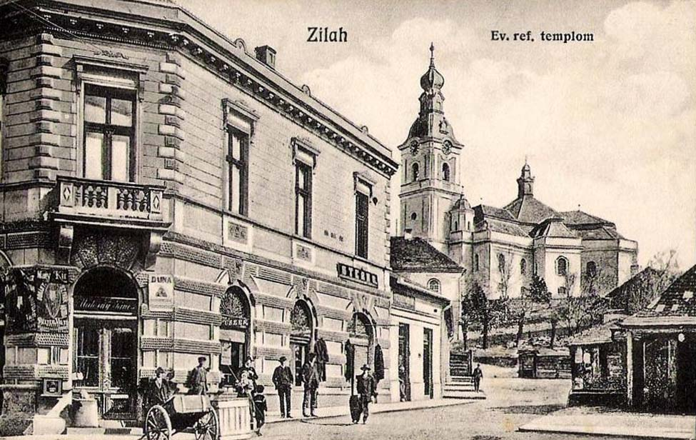 Reformed church in Zalau (1912)